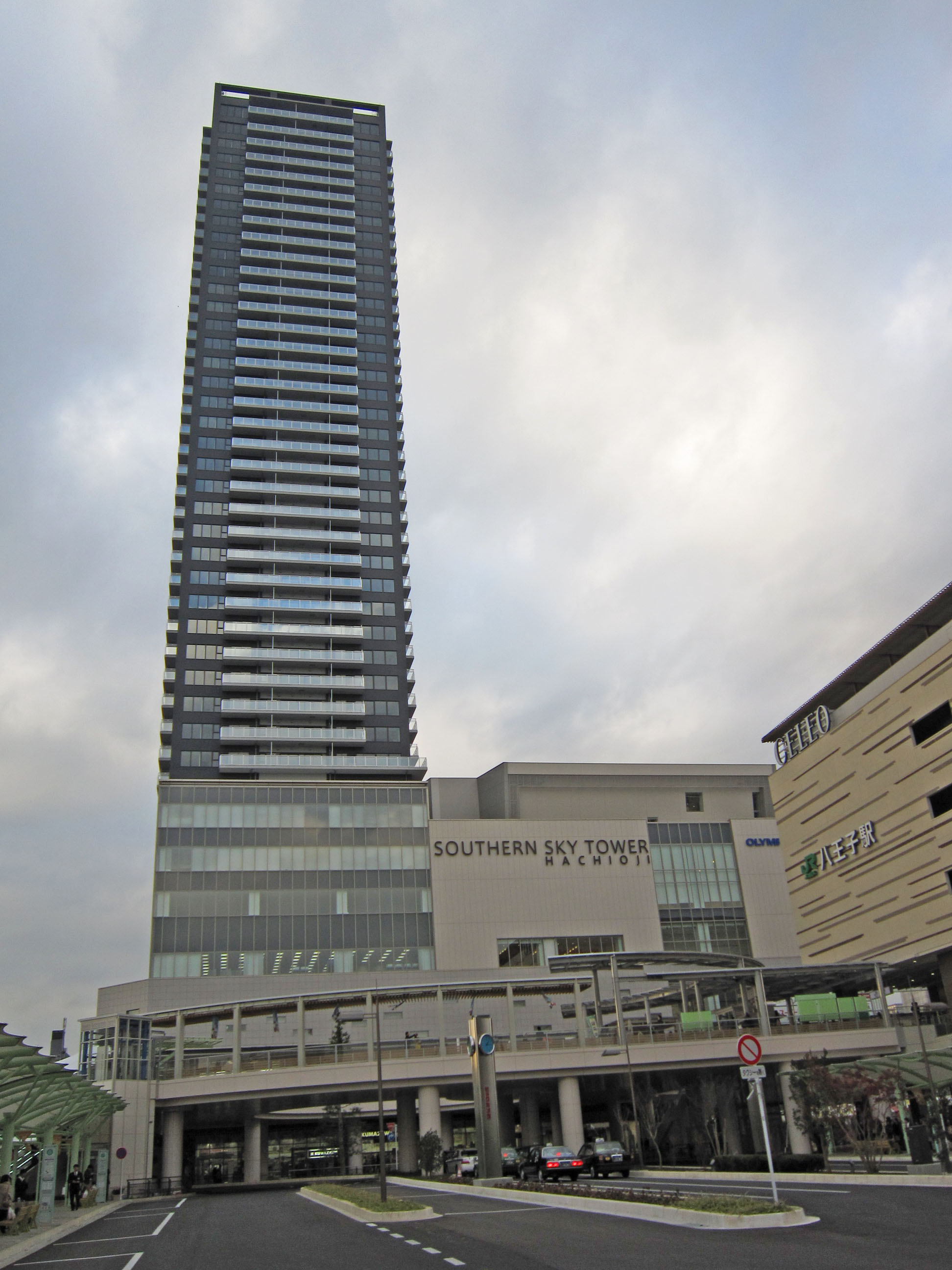 Southern Sky Tower Hachioji, Hachioji, Tokyo, Japan